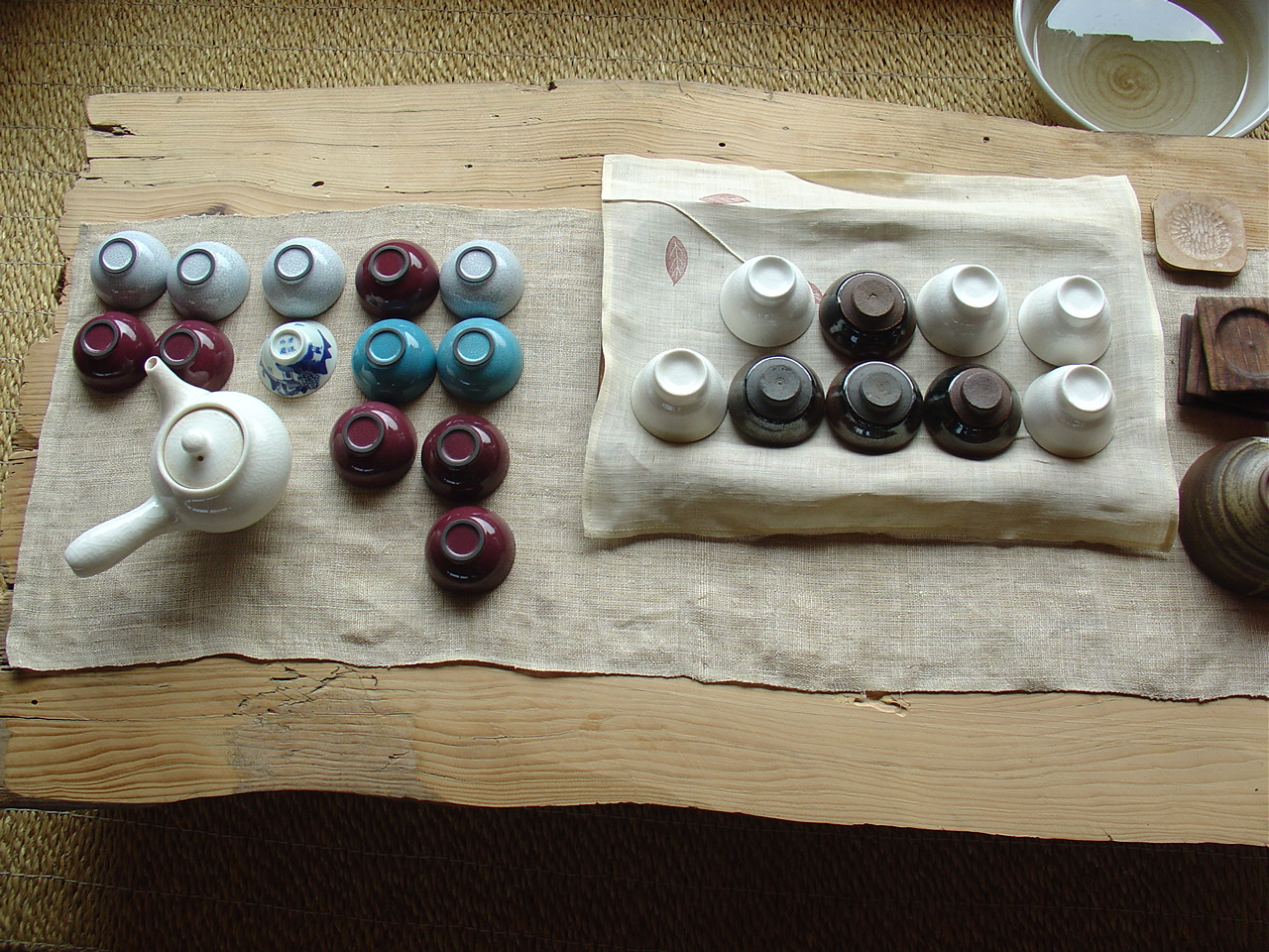 Korean pottery